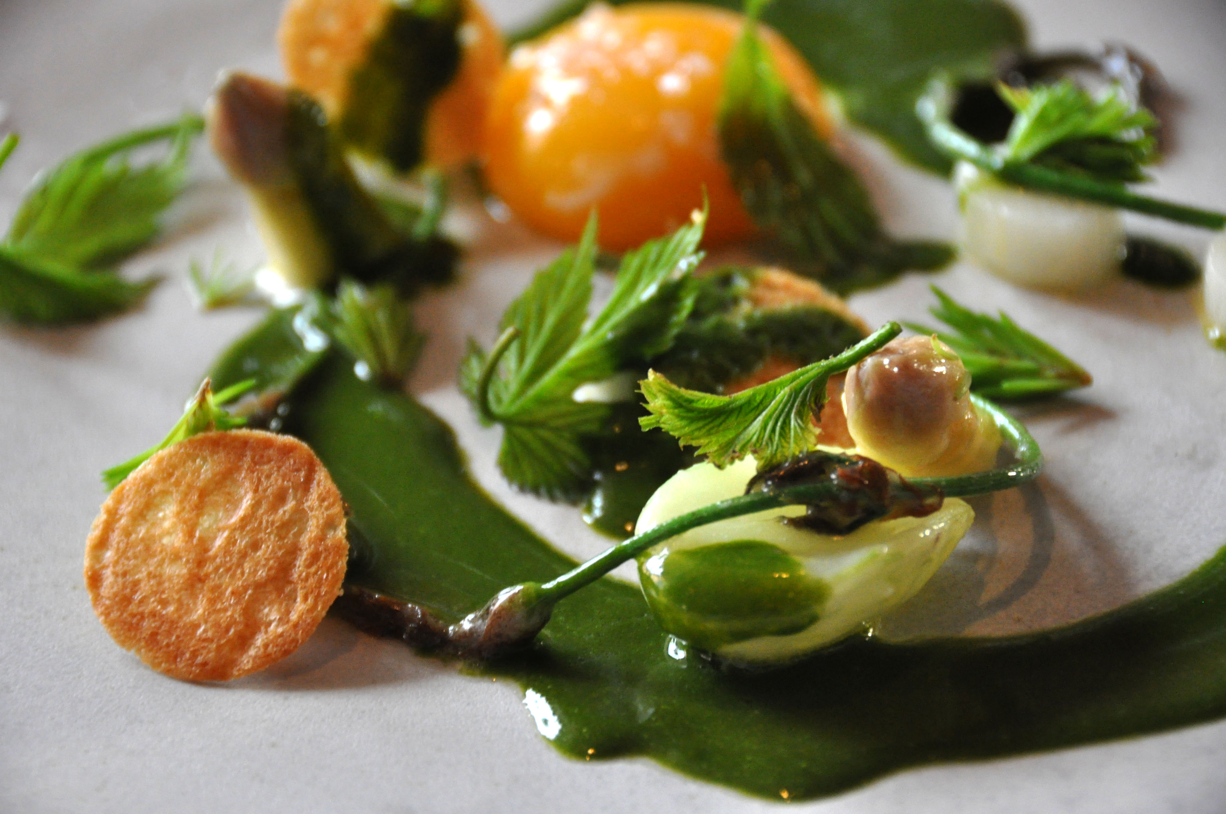 A dish from the restaurant Noma in Copenhagen ~"White asparagus with poached egg yolk and sauce of woodruff (Galium odoratum?)